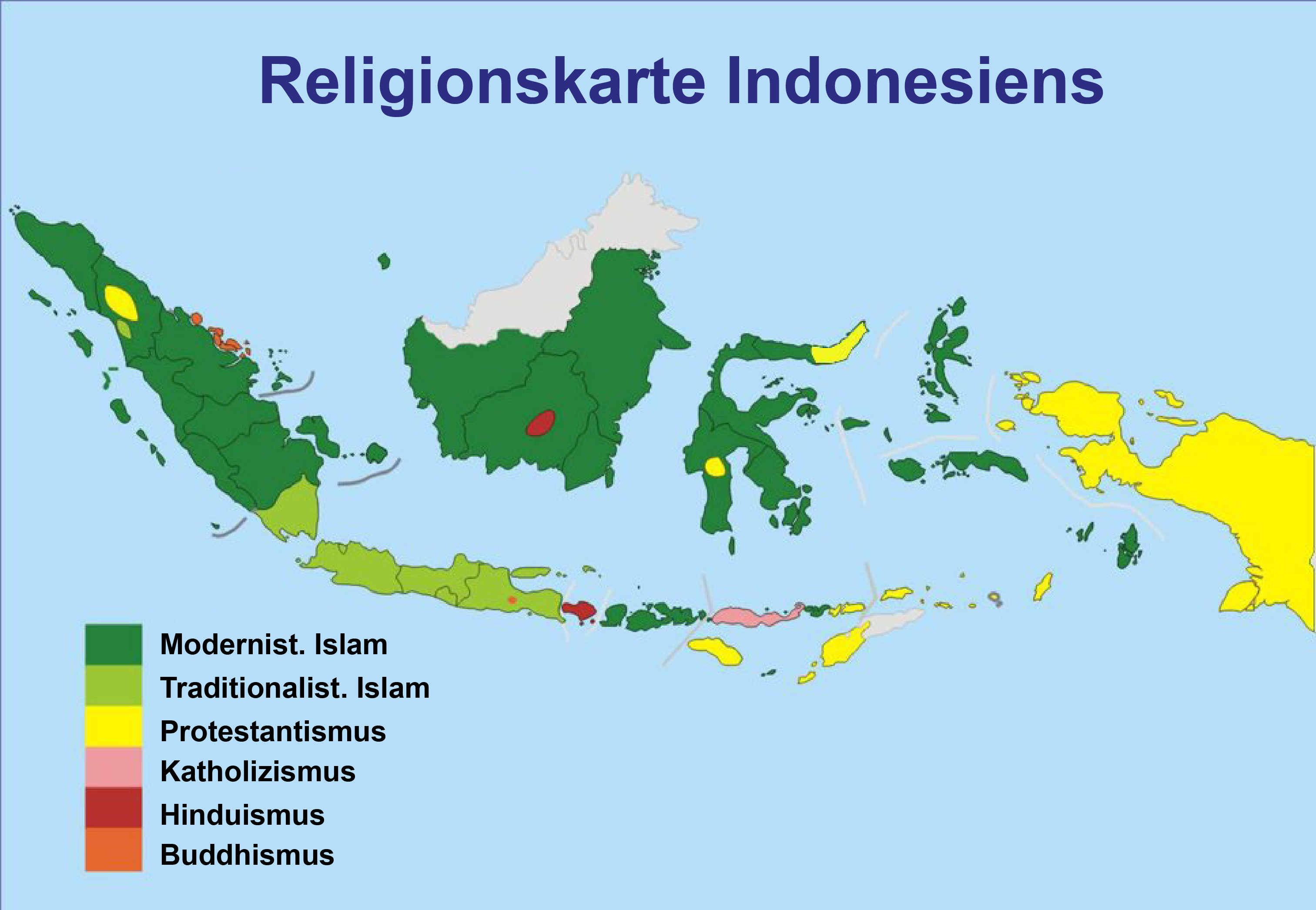 Map of Religions of Indonesia